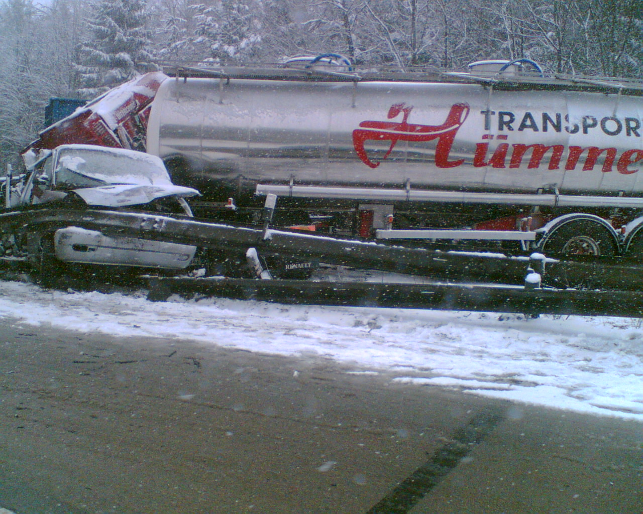 Mass car crash on the Highway D1 (Czech Republic), 20. 3. 2008